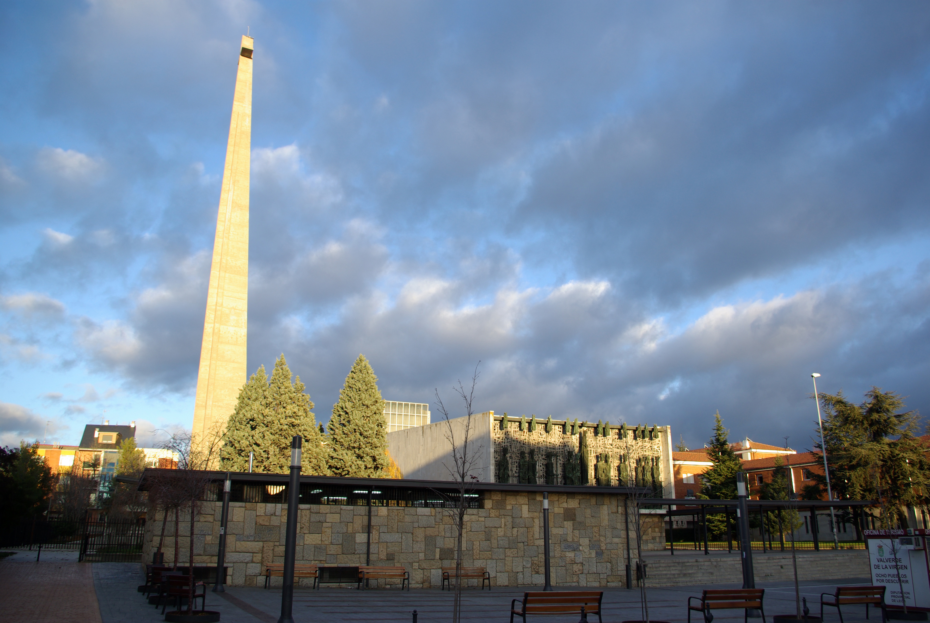 Sanctuary of La Virgen del Camino, Valverde de la Virgen (León, Spain) in the Way of Saint James.